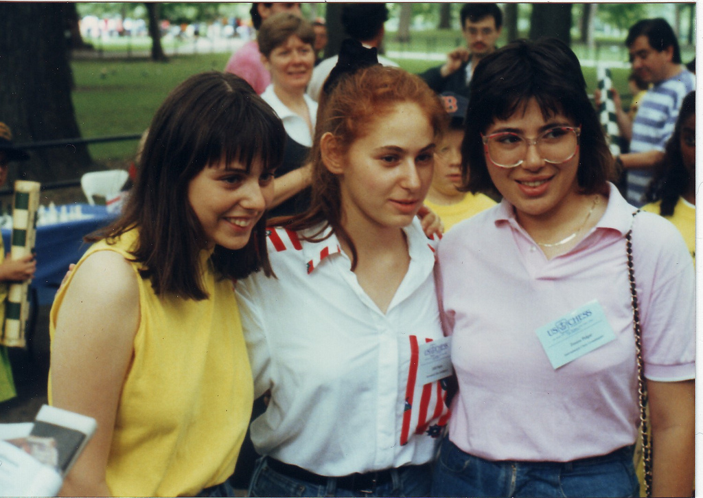 Sofia Polgar, Judit Polgar, Susan Polgar, at a public chess event in Central Park, New York City, New York